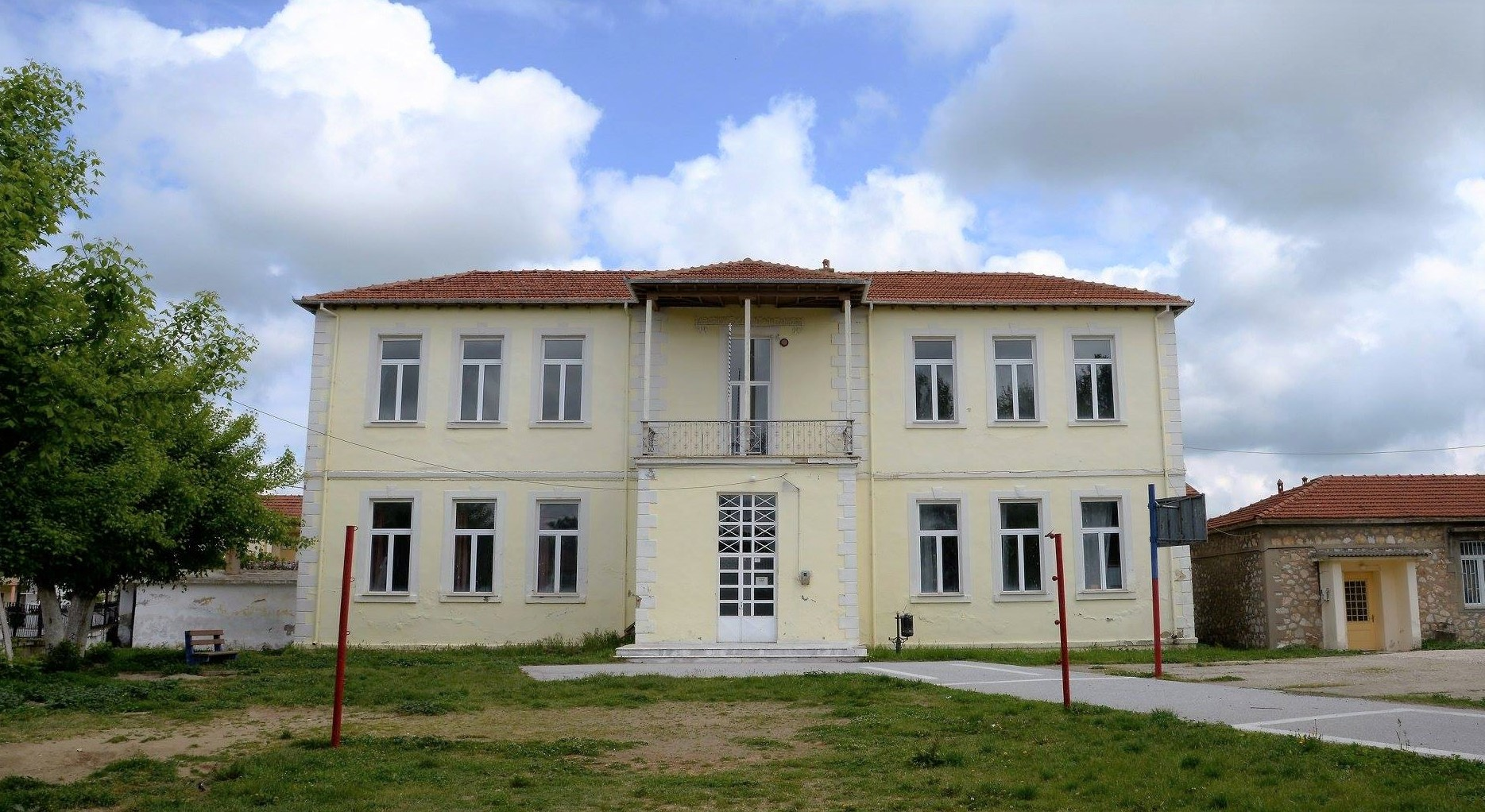 The school in Papayiannis, Florina